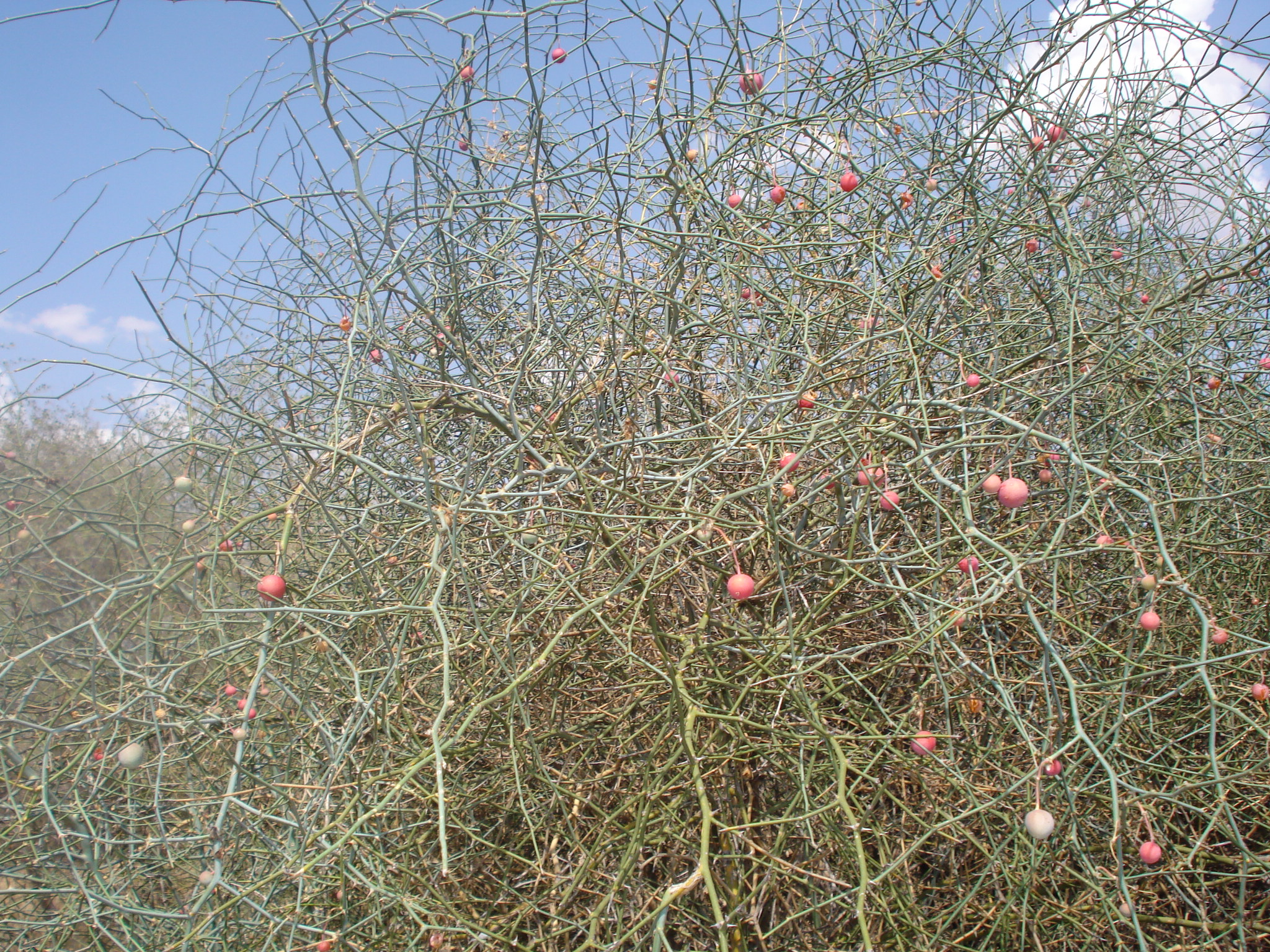 Capparis decidua tree with fruit